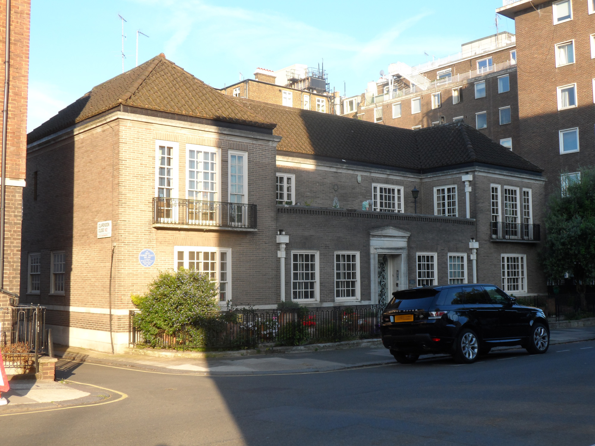 SIR GILES GILBERT SCOTT 1880-1960 Architect designed this house and lived here 1926-1960